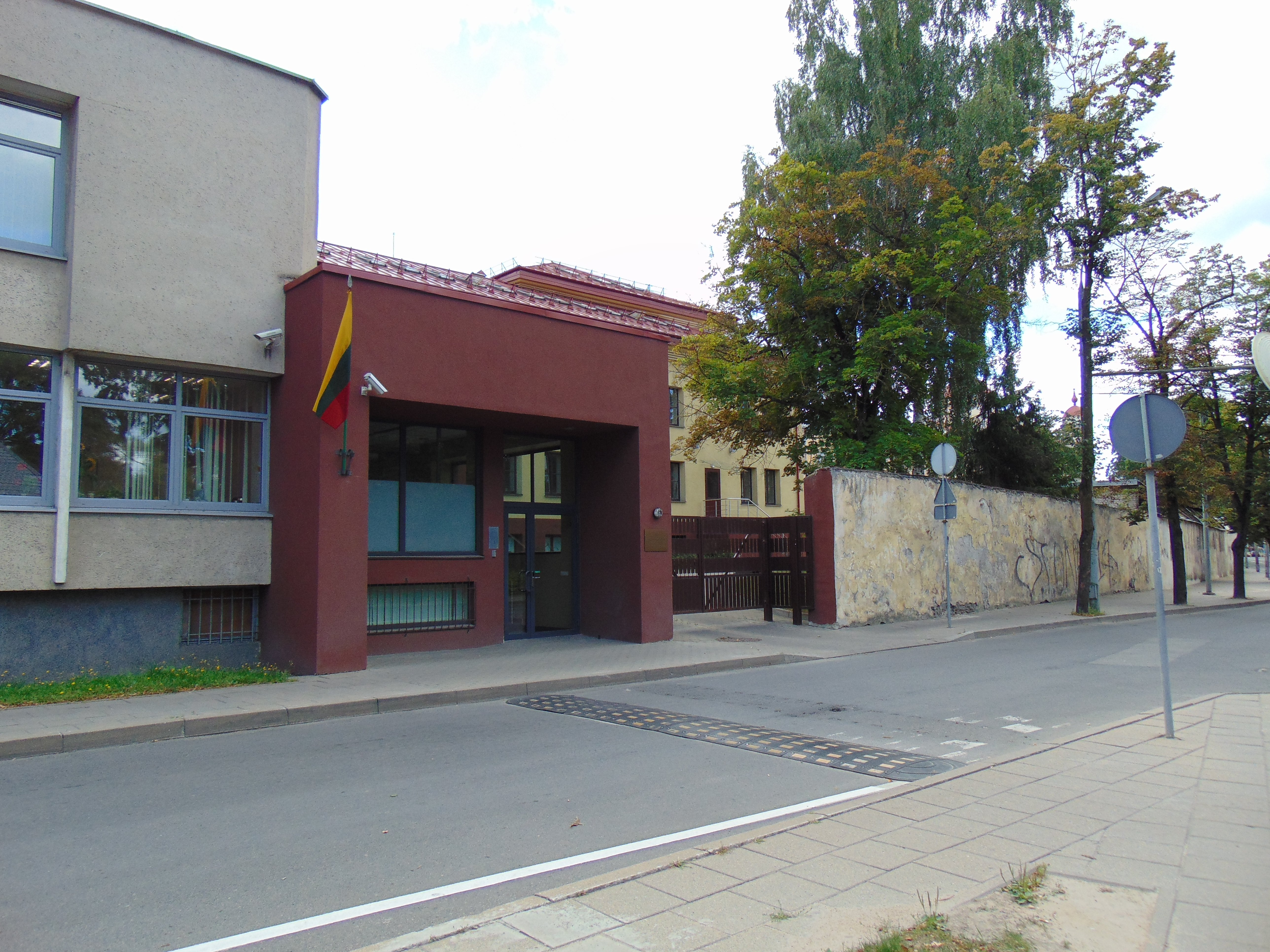 Department of Migration